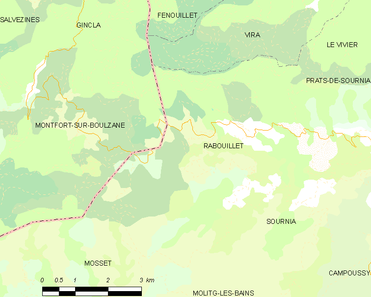 Map of French municipality